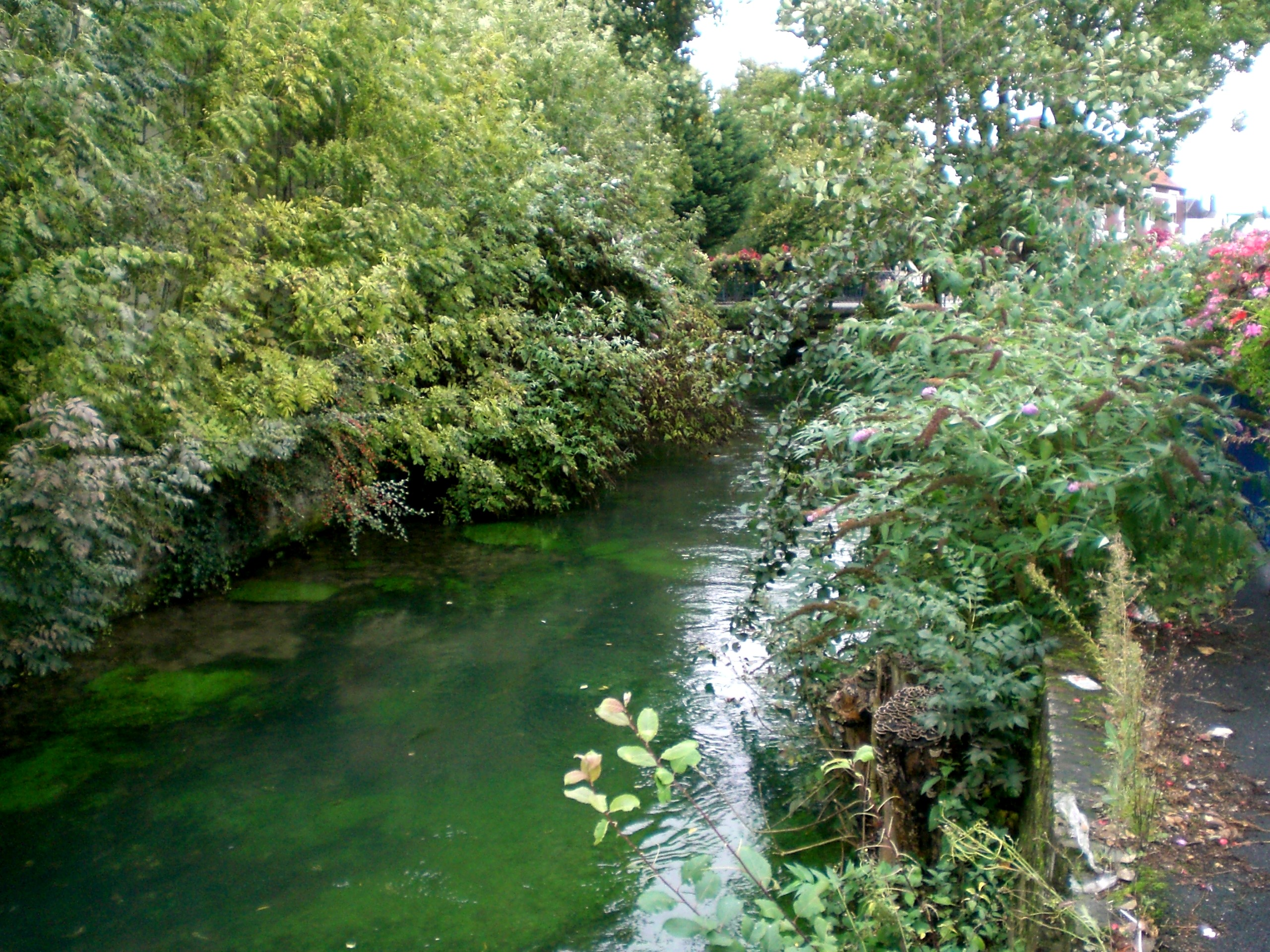 The Ancre river at Albert (Somme) to the future residence of the Theater in October 2008 upstream before the bridge